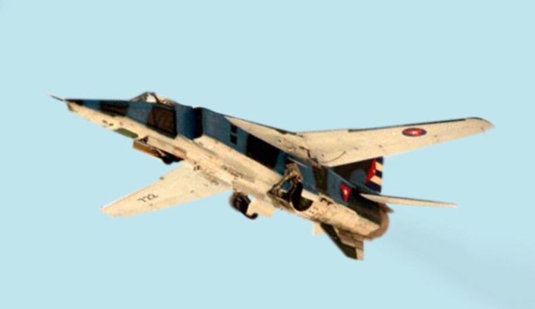 Local call number: DM1861 Title: Cuban MIG-23BN departing Key West Naval Air Station Date: March 29, 1991 Physical descrip: 1 photonegative - col. - 35 mm. Series Title: Dale M. McDonald Collection Repository: State Library and Archives of Florida, 500 S. Bronough St., Tallahassee, FL 32399-0250 USA. Contact: 850.245.6700. Persistent URL